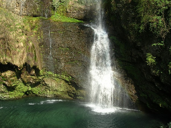 Waterfall of Ferrera di Varese Picture taken by user:Idéfix, april 2005